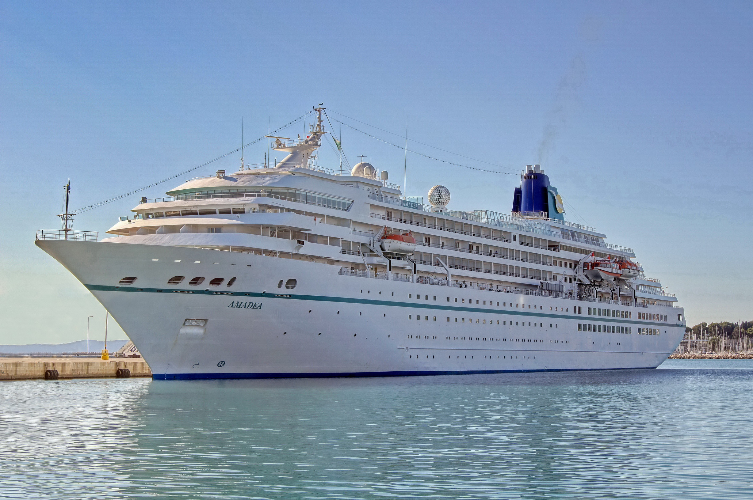 Amadea (ship, 1991) IMO 8913162; in the port of Split, 2011-11-14